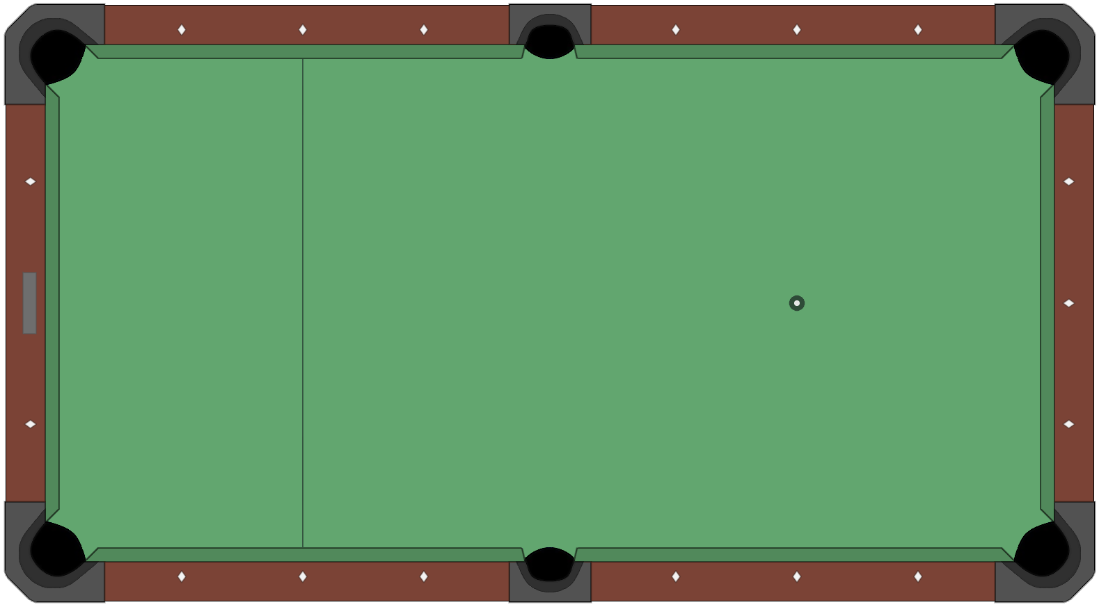 Empty (ball-free) diagram of an American-style pool table.